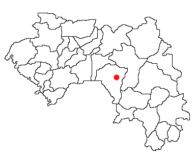 Faranah, Guinea Location Map; created with the GIMP. Made by User:Acntx.